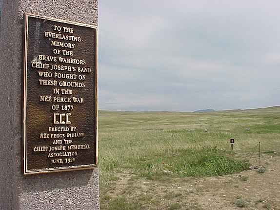 Photo of one of the signs at the Battle of Bear Paw site.